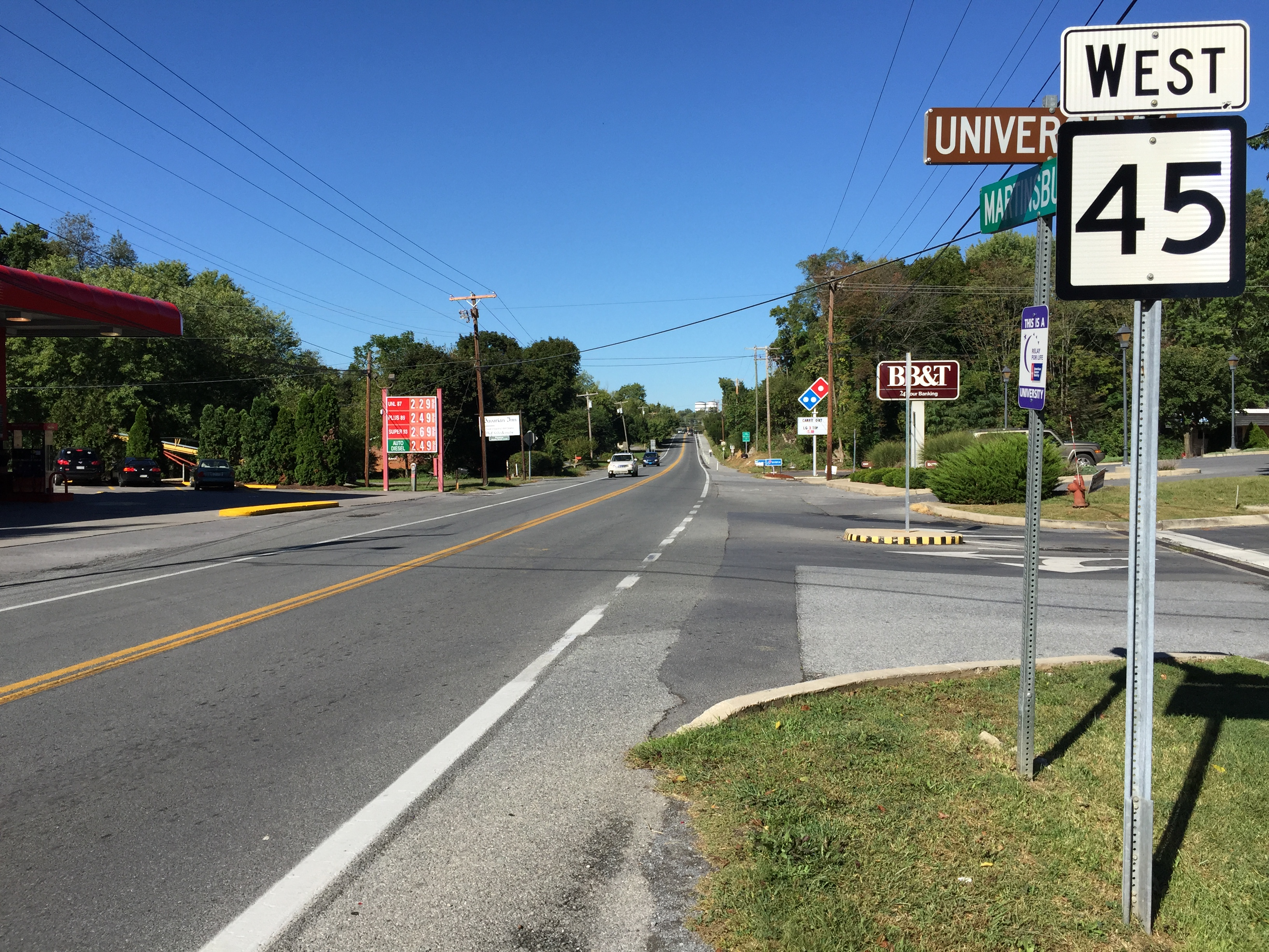 View west along West Virginia State Route 45 (Martinsburg Pike) at University Drive in Shepherdstown, Jefferson County, West Virginia